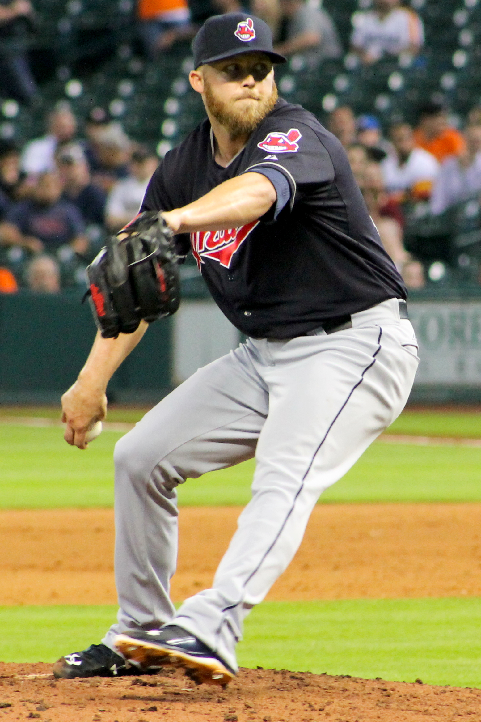 Cody Allen, a professional baseball pitcher, plays in Houston in April 2015.